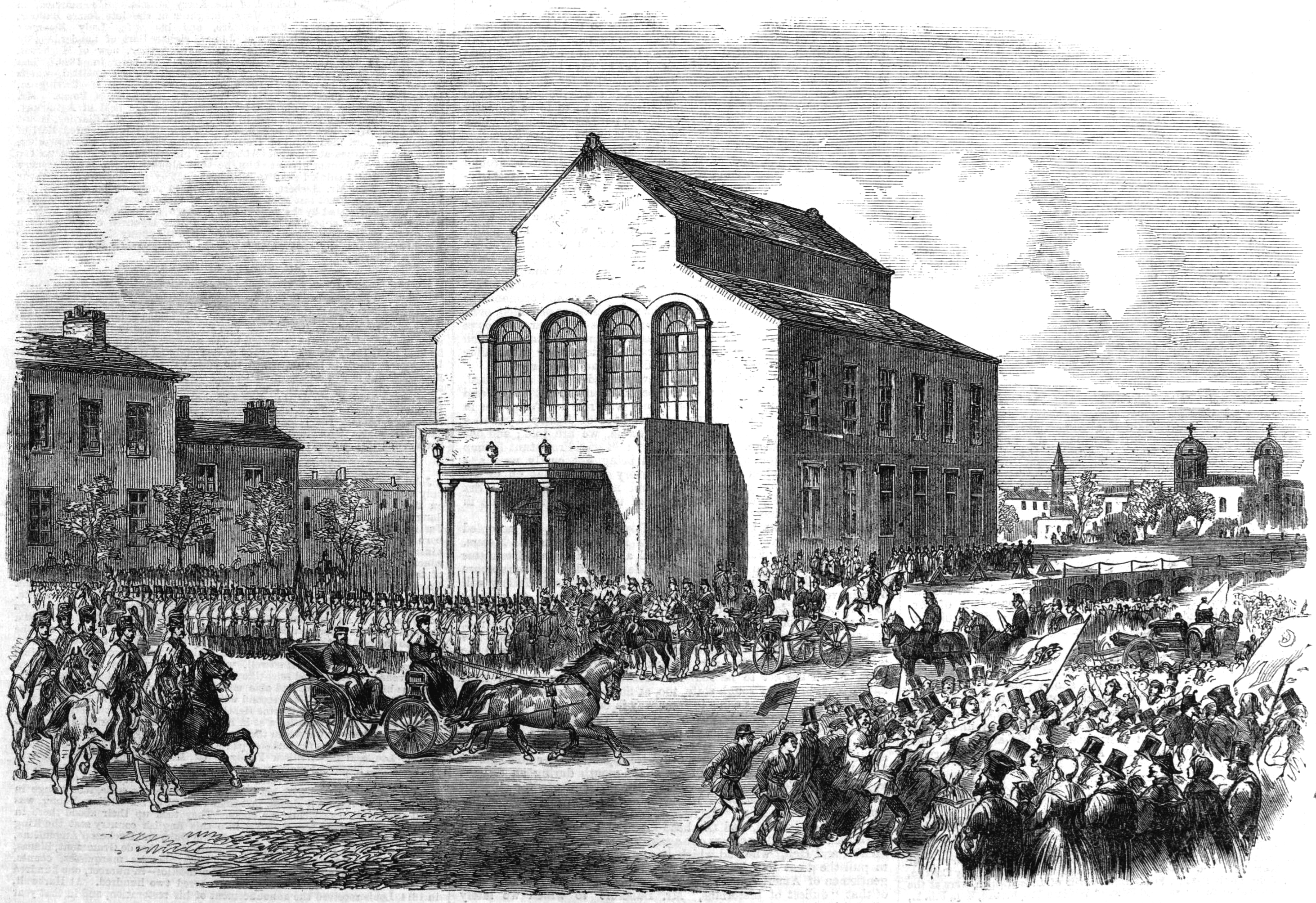 The Revolution at Bucharest - Troops in front of the Platz Theatre